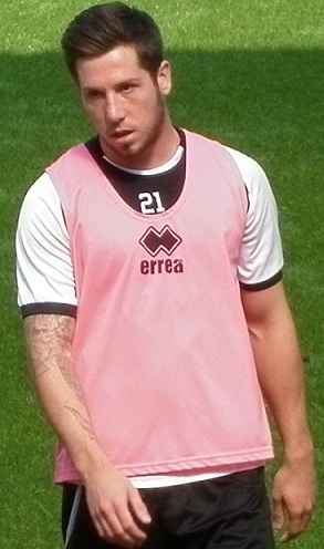 Jacob Butterfield at Norwich City's open training session on 9 August 2012.